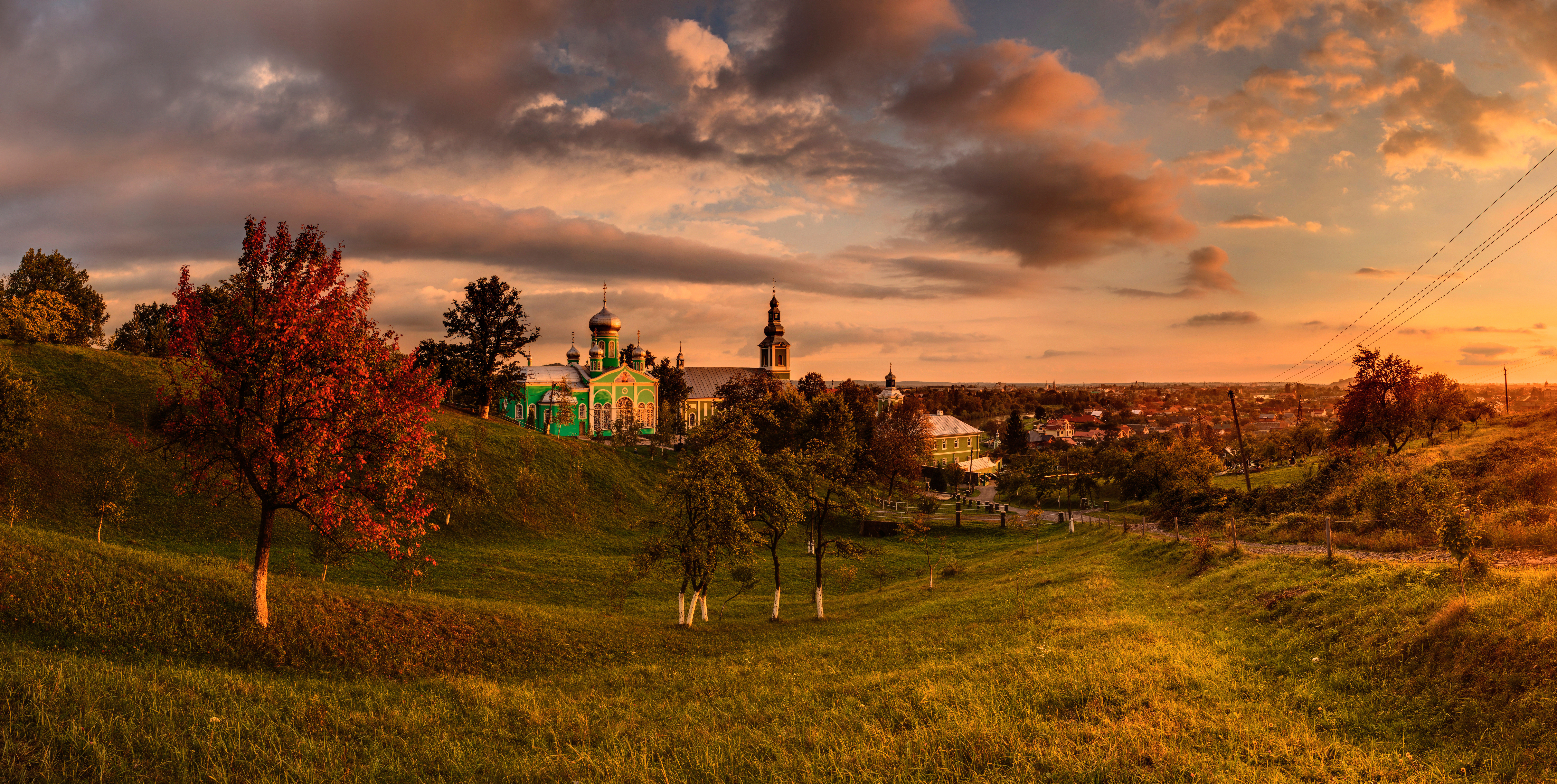 Saint Nicholas Monastery (Mukacheve) (1772-1806, complex of architecture monuments of national significance №171): St. Nicholas Church and cells. Transcarpathian region, Mukachevo de=St. Nikolai Kloster, Mukatschewe